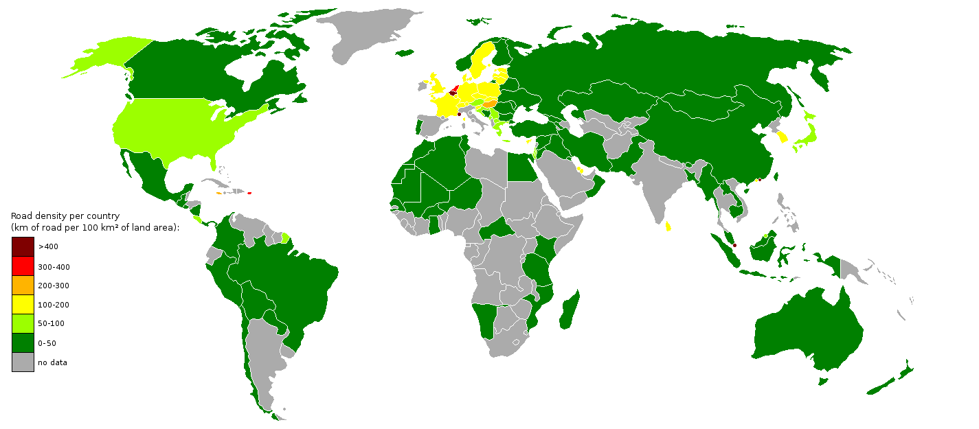 Map showing the road density (km of road per 100 km² of land area). The schematic was made, based on the data from the world bank